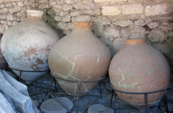 Ancient Greek amphoras, Khersones, Sevastopol